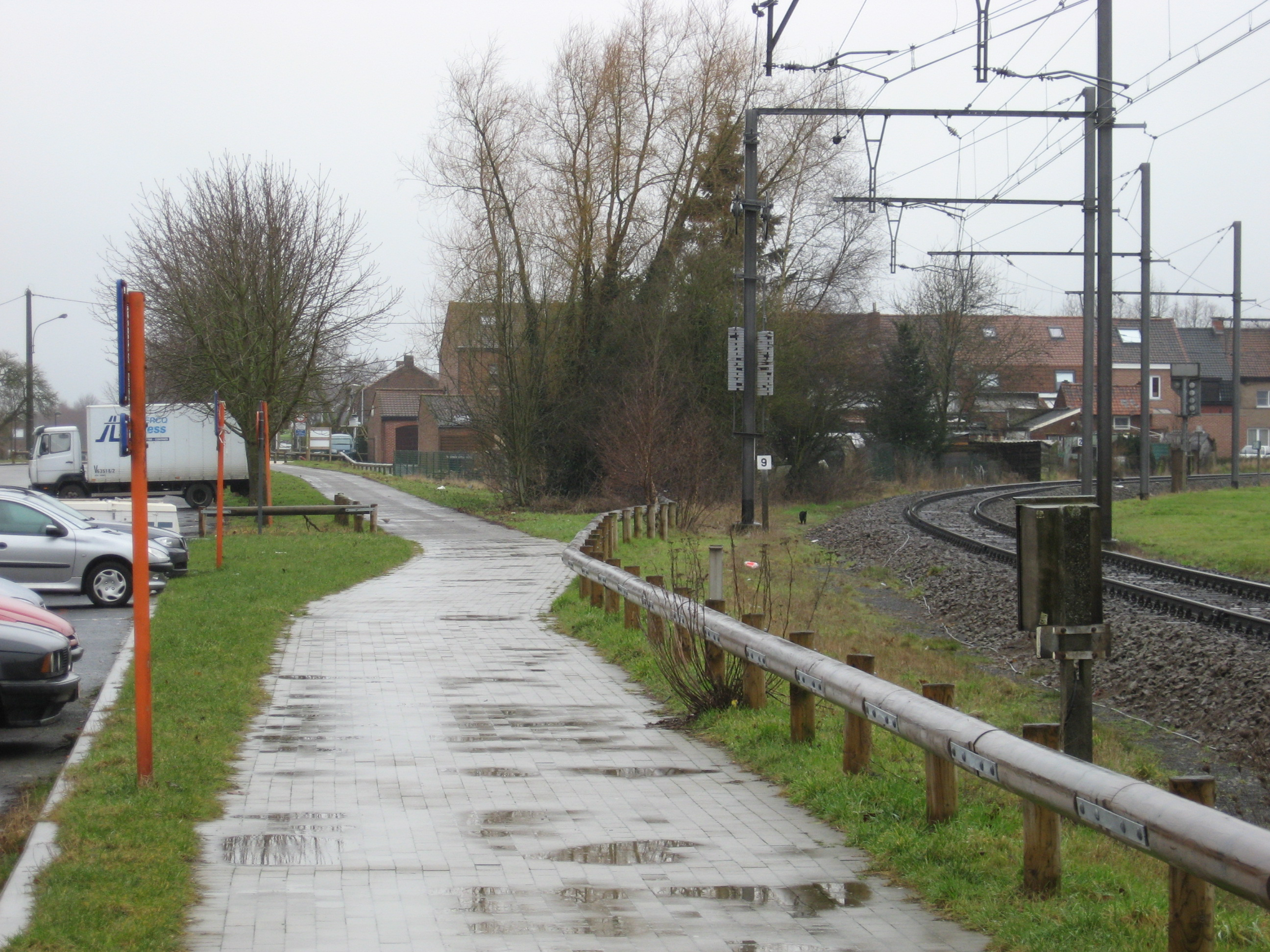 Former railway line 67 to Armentieres converted to a bike-route.